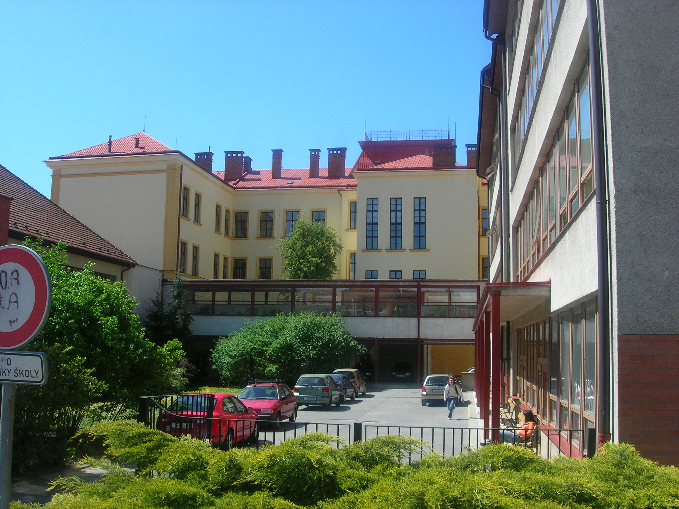 Secondary school in Uhersky Brod, Czech Republic